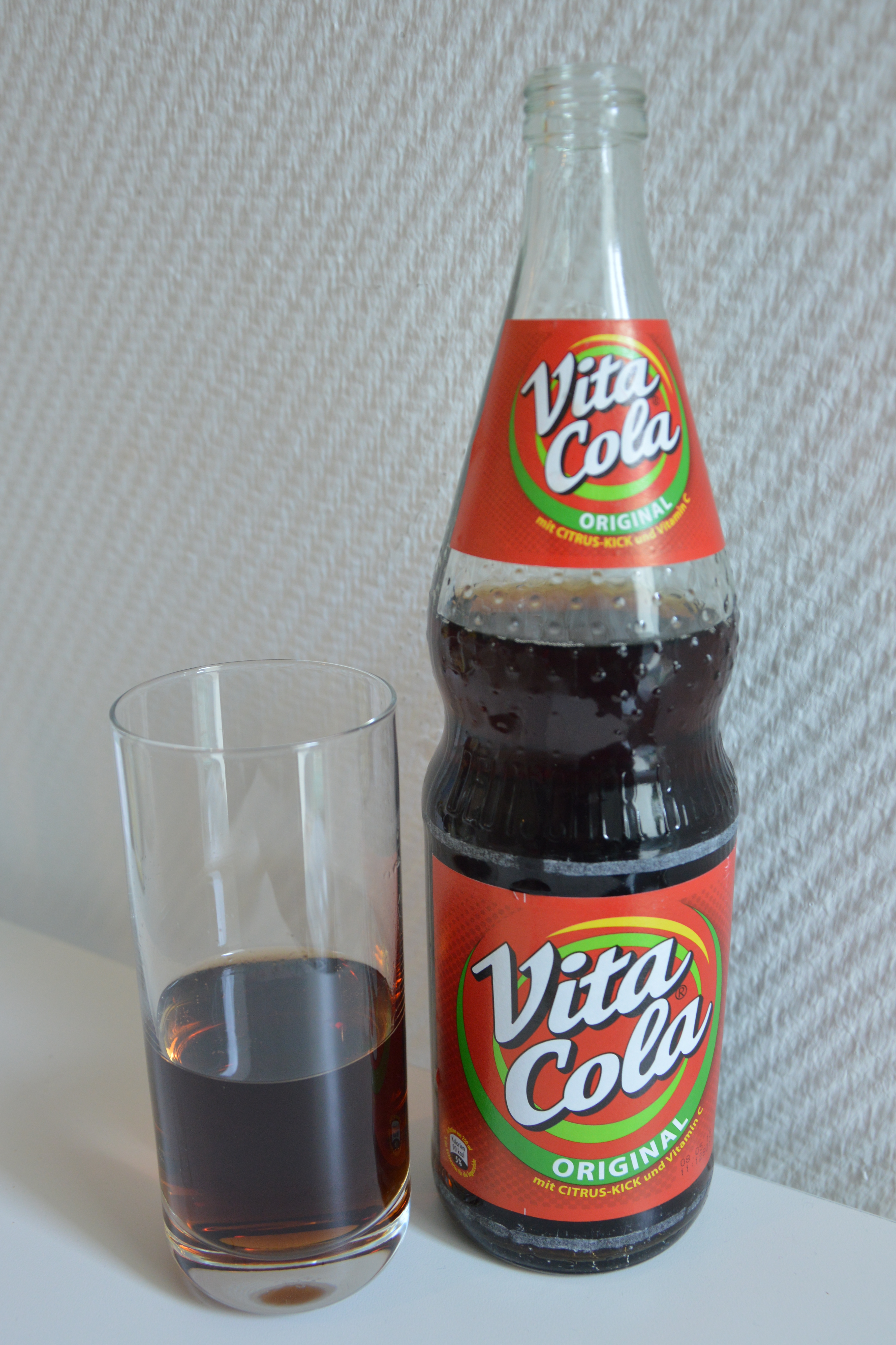 A bottle and a glass of Vita Cola